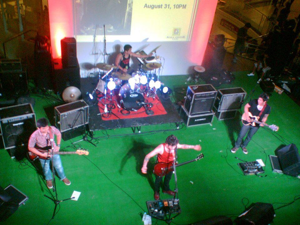 Callalily at Ayala Center Cebu